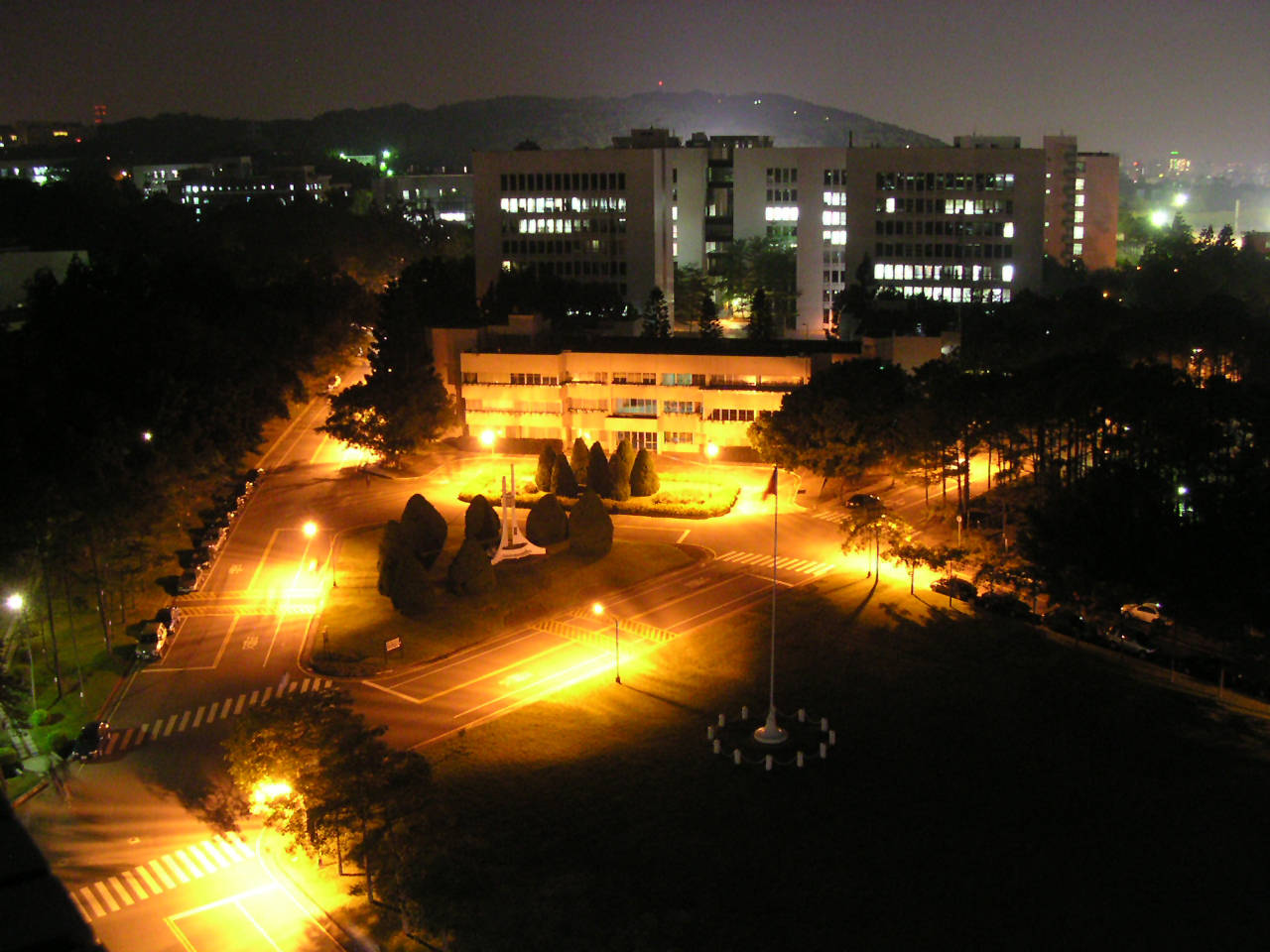 The night view of National Tsing-Hua University in Hsinchu city, Taiwan.